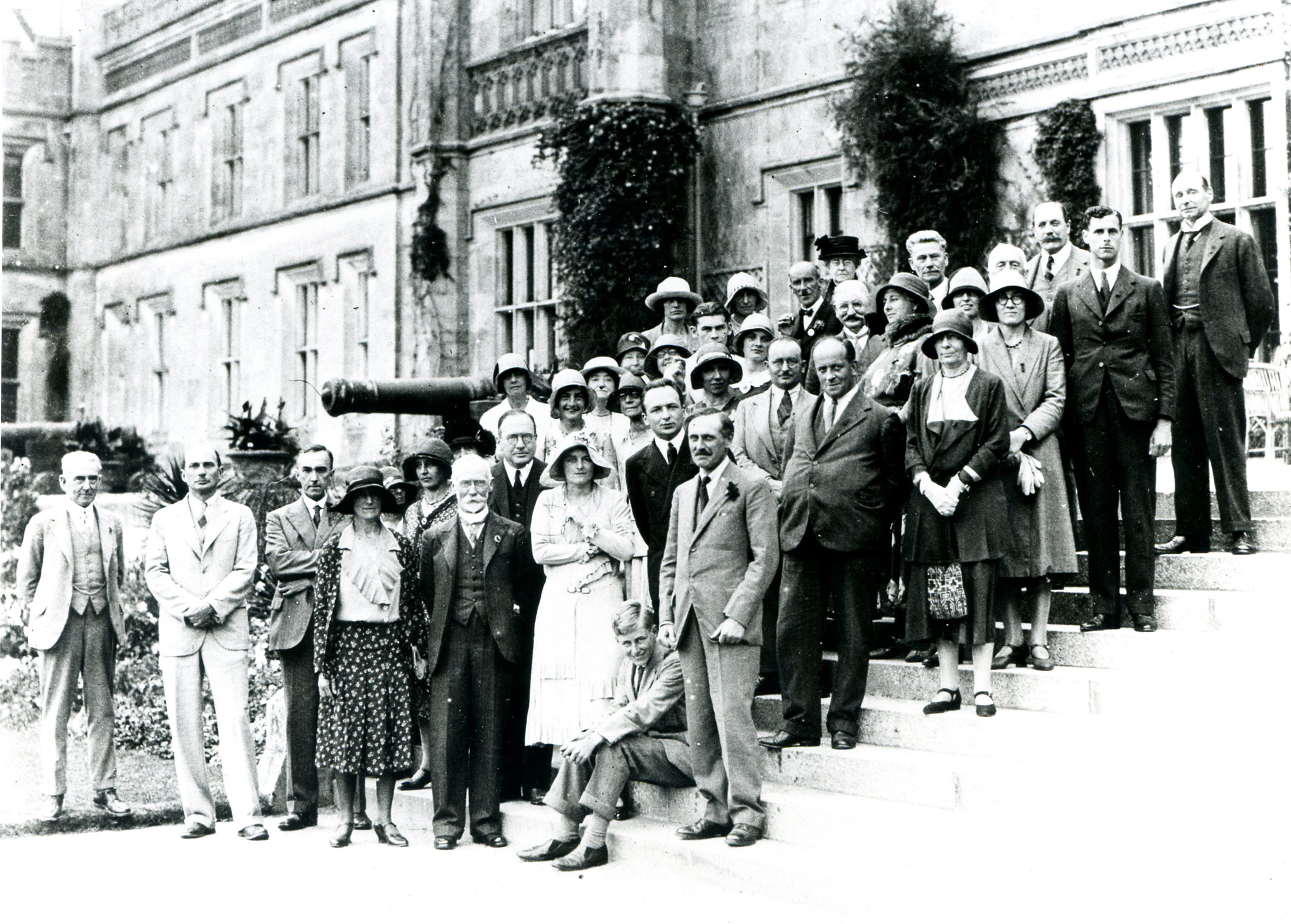 Truro 1930 Arthurian Society - International Arthurian Congress, Truro, August 1930 Professor C. S. Lewis attended the Congress, and made the list of participants inc. Dominica Legge. Second from left, R. S. Loomis, fourth from left Katharine Jenner, fifth from left Henry Jenner